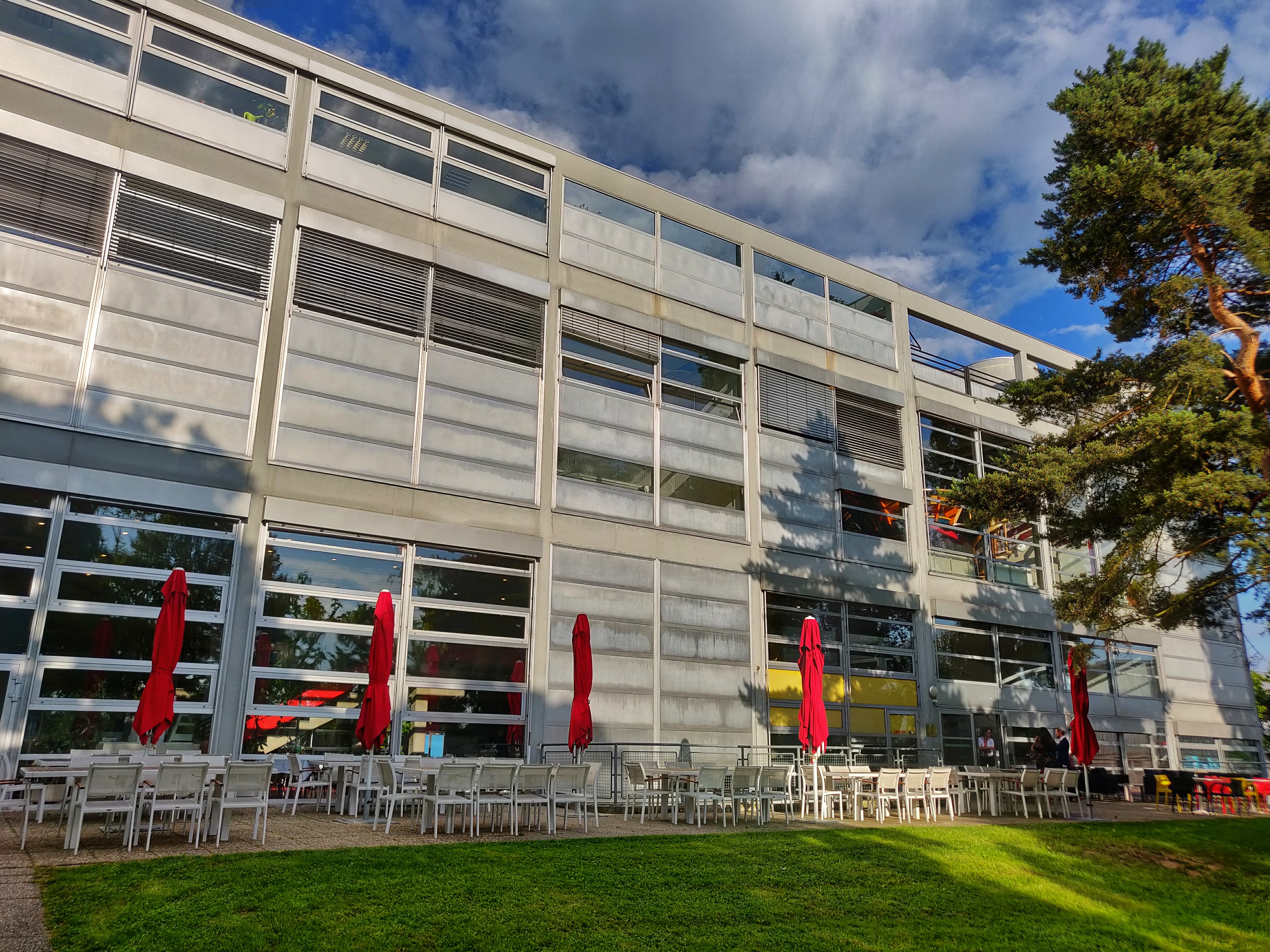 European Youth Centre in Strasbourg, France viewed from garden.